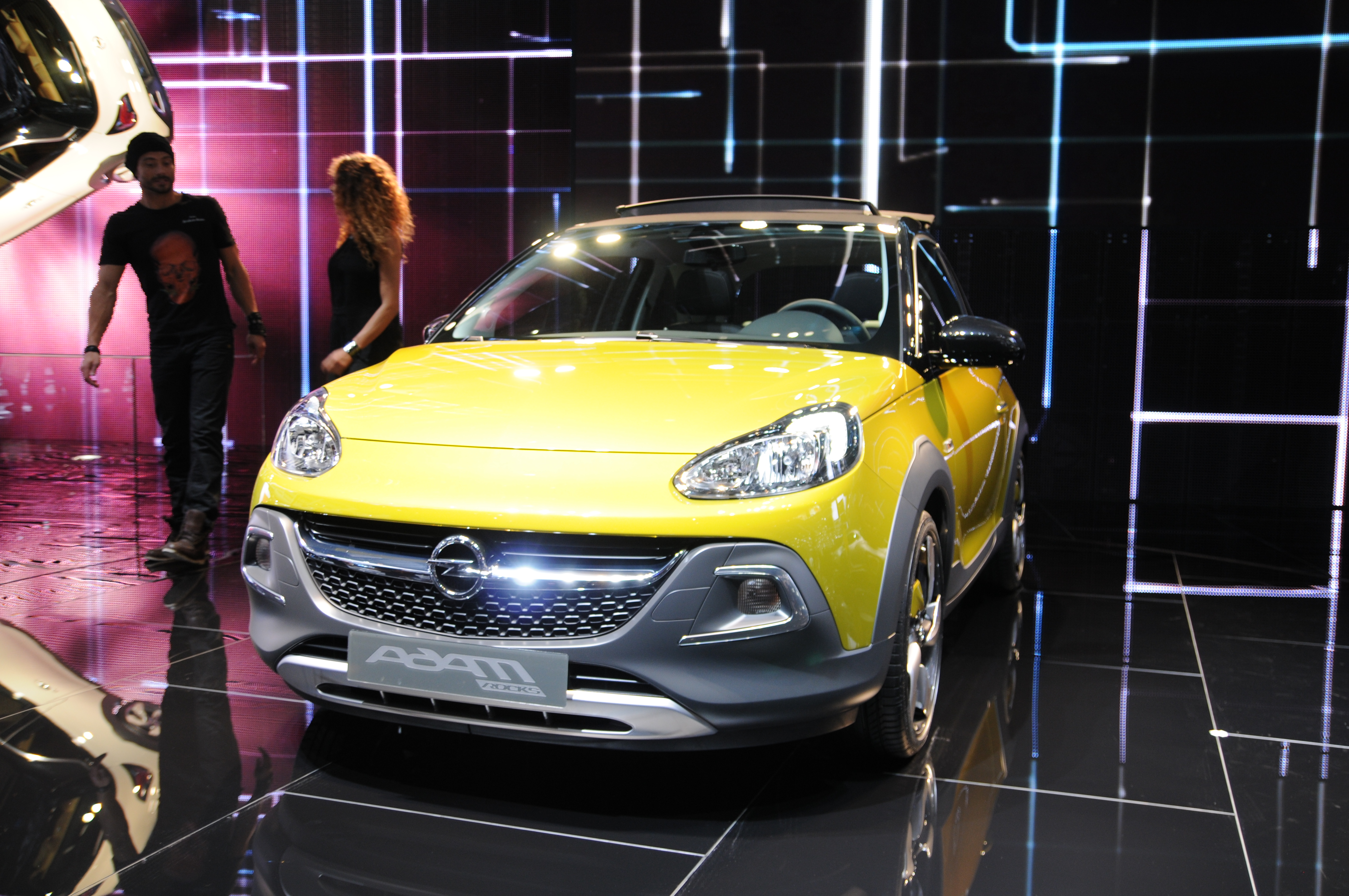 Geneva Motor Show 2014 (photo taken on the first press day)